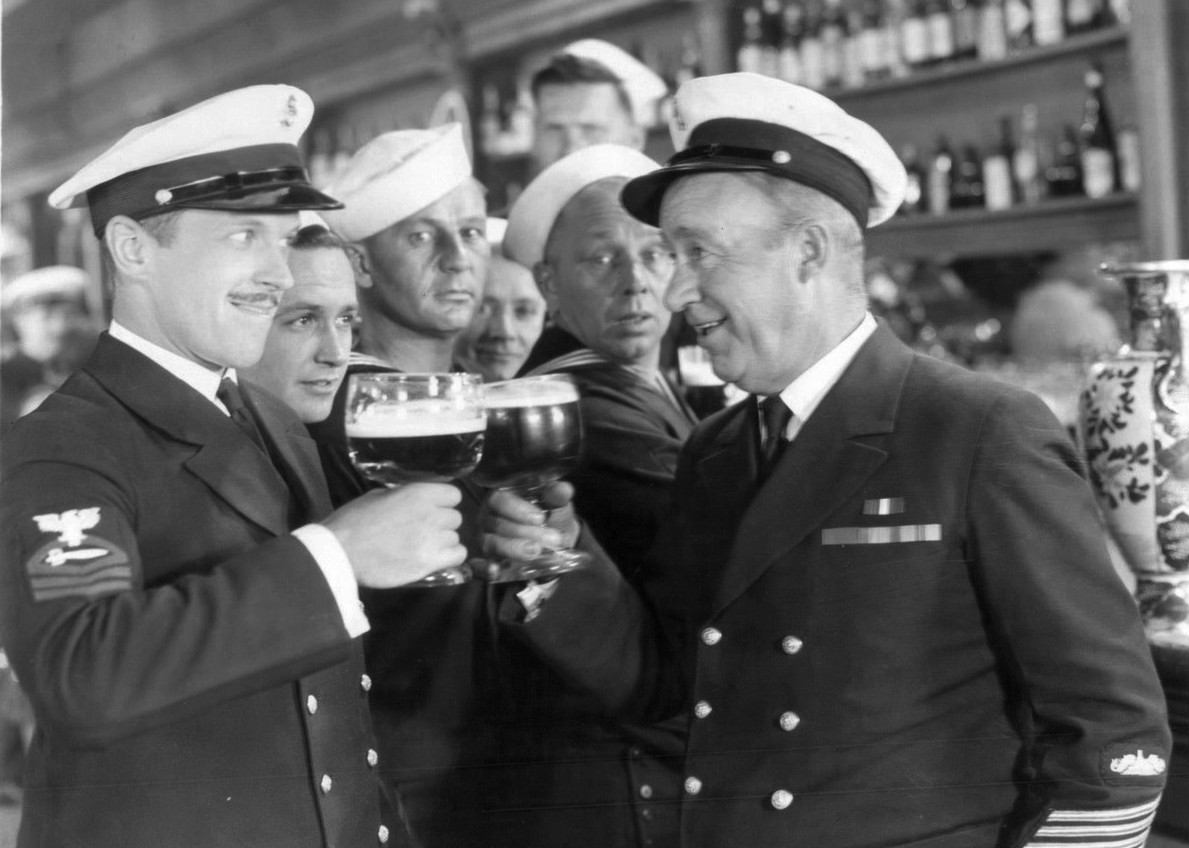 Kenneth MacKenna and J. Farrell MacDonald in a scene from the 1930 film Men Without Women.